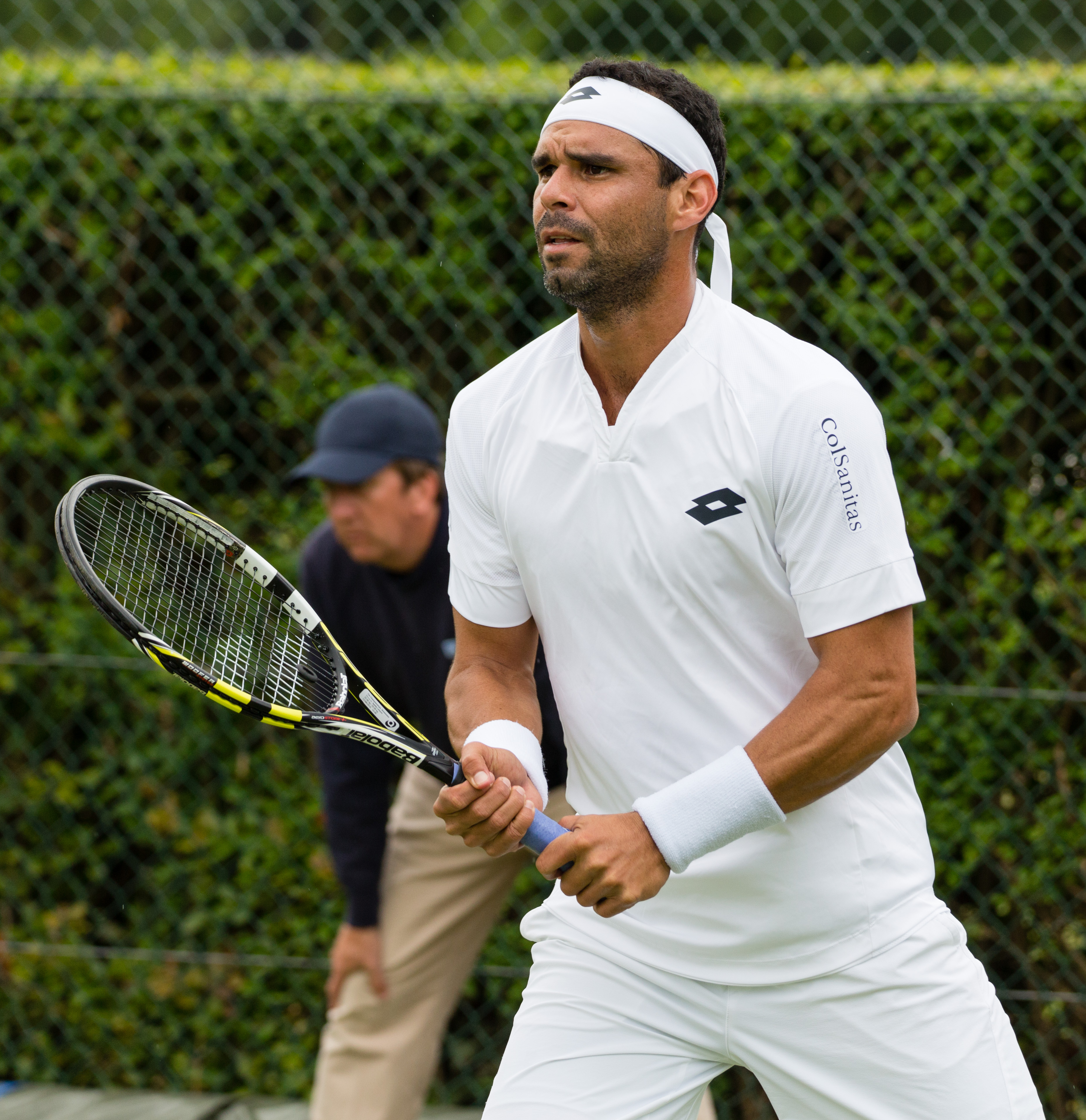 Alejandro Falla competing in the first round of the 2015 Wimbledon Qualifying Tournament at the Bank of England Sports Grounds in Roehampton, England. The winners of three rounds of competition qualify for the main draw of Wimbledon the following week.